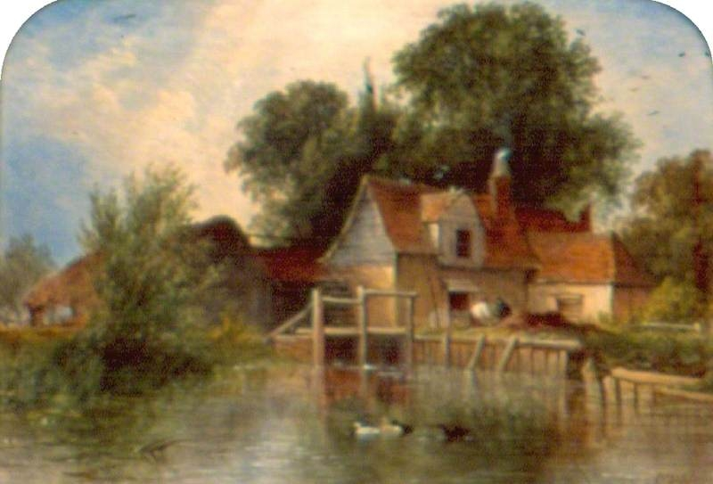 Maple Durham, Berkshire